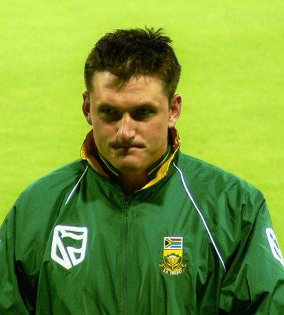 South African cricketer Graeme Smith.